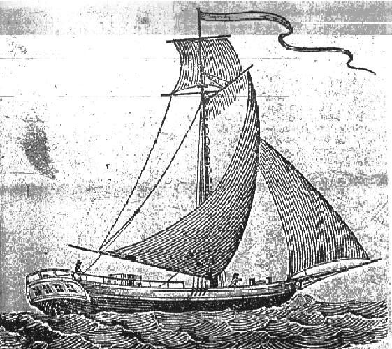 Image of a typical packet boat from a 19th century book